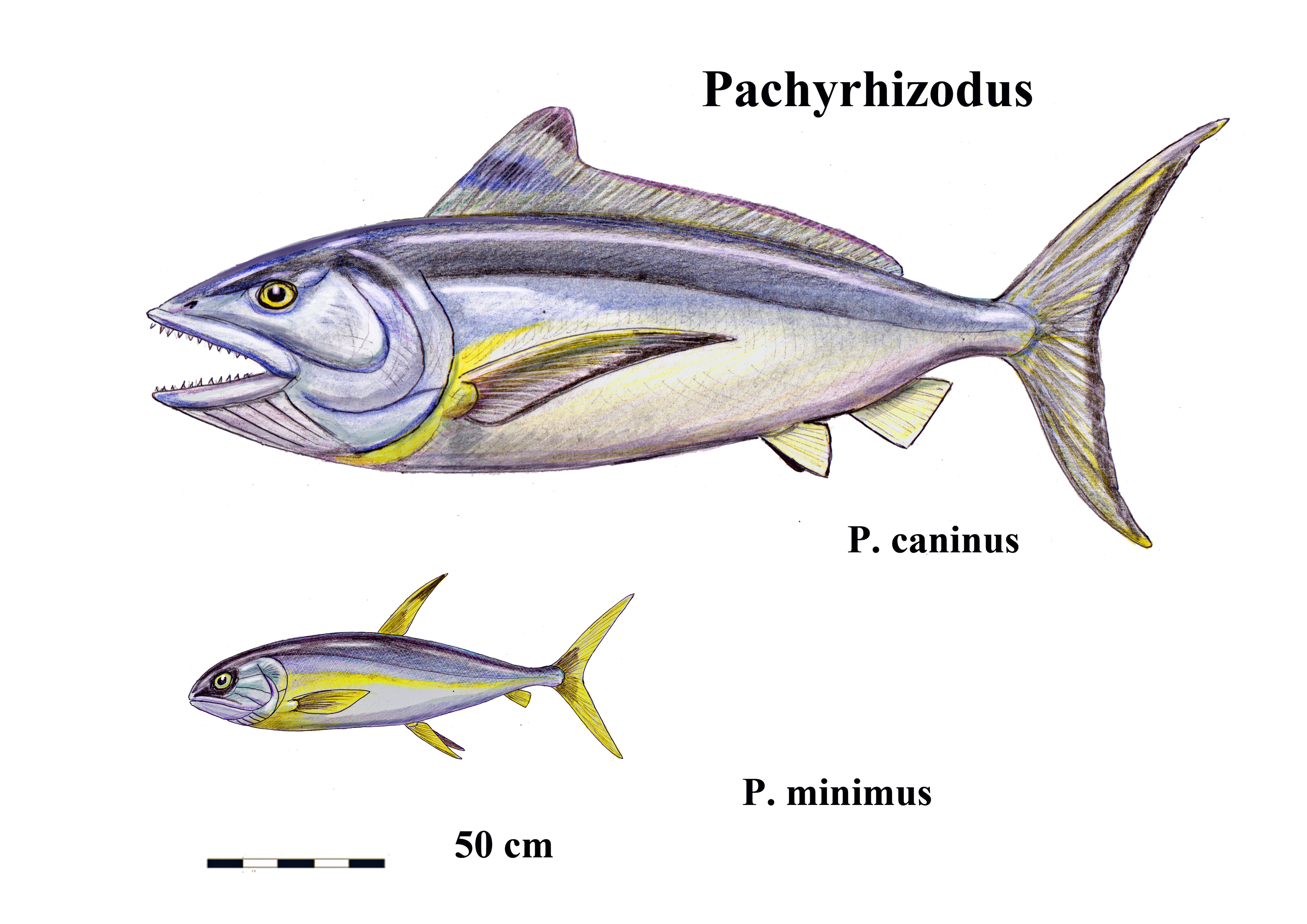 Two species of Pachyrhizodus from Late Cretaceous Niobrara Sea of North America. P. caninus is reconstructing according to new data (K. Shimada, 2015)